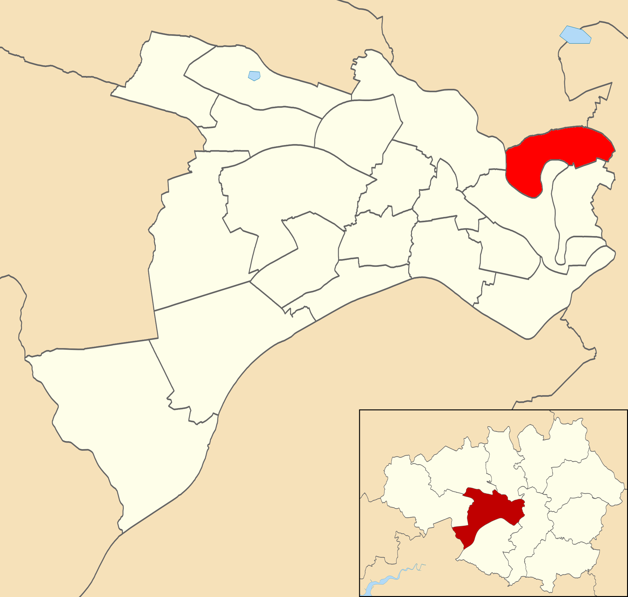 Map showing location of Kersal ward within Salford City Council.